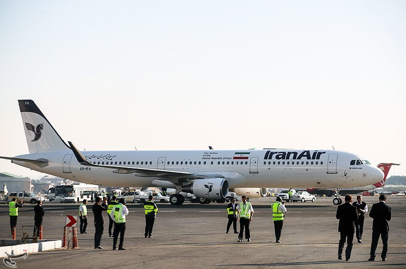 Arrival of Iran Air Airbus A321 (EP-IFA) to Mehrabad International Airport